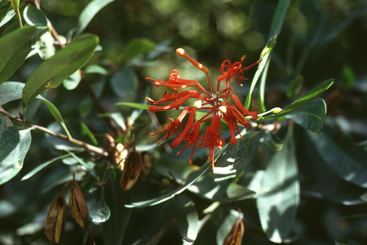 Embothrium coccineum, Proteaceae - Chile, E Puerto Octay (Prov. de Osorno)